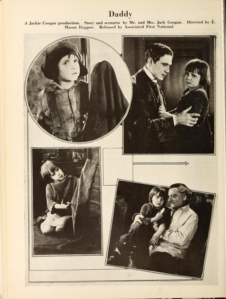 Scenes from the 1923 film Daddy.